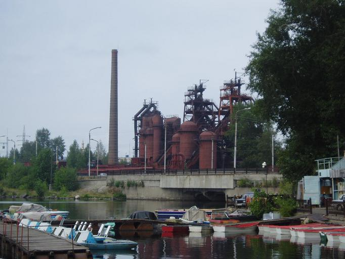 Demidovfactory in Nizhny Tagil. Photo taken in summer 2005.